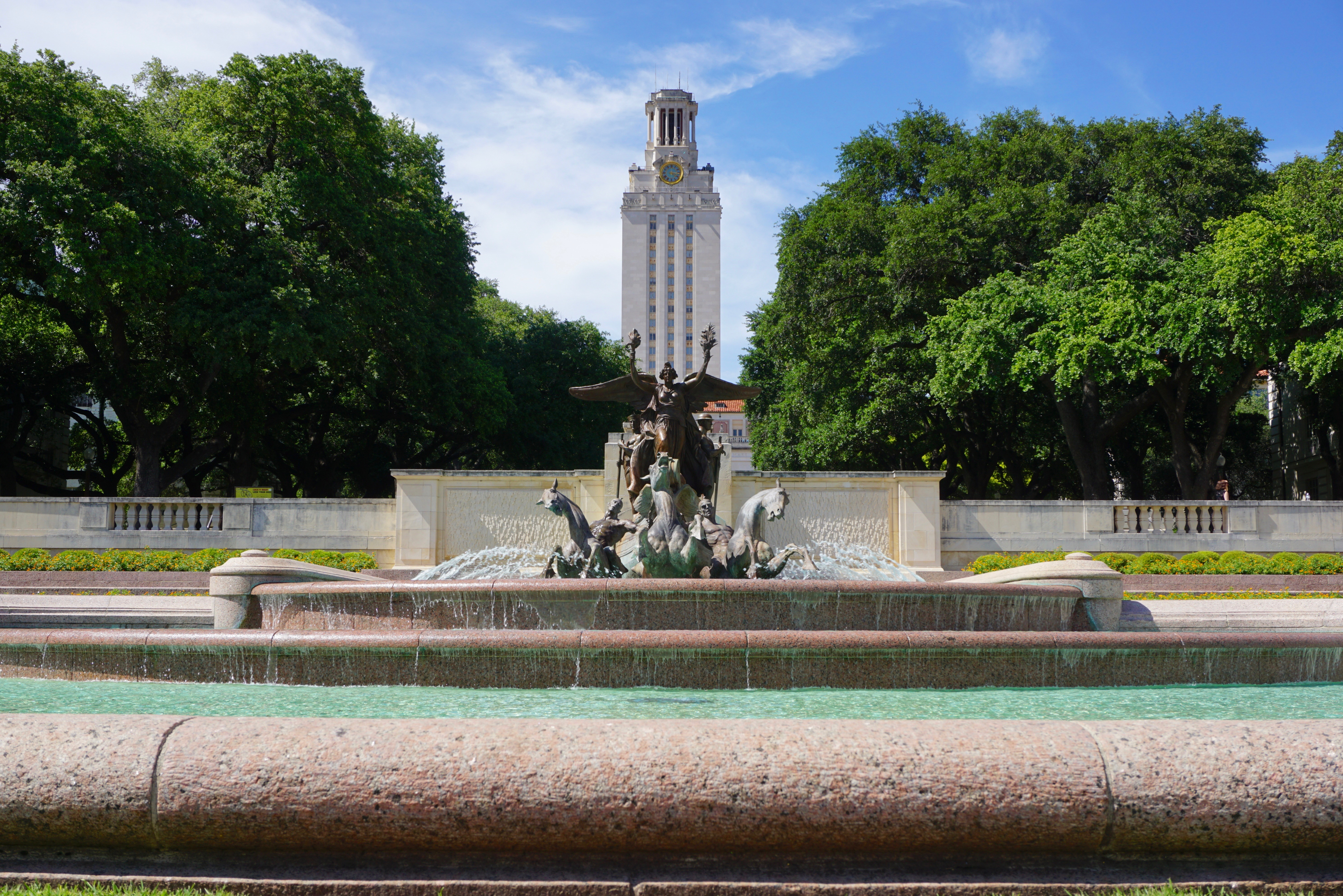 The fountain and tower at the University of Texas at Austin.